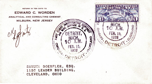 First flight cover carried over CAM-6 from Detroit (Ford Airport at Dearborn , MI) to Cleveland on the first commercial U.S Air Mail flight, February 15, 1926. Notes The contractor for this route was the Ford Motor Company, operating as Ford Air Transport, using a fleet of six Ford built Stout 2-AT single engine metal skin high wing monoplanes. The cover is autographed by Lawrence G. Fritz who was the pilot of the first flight from Ford Airport at Dearborn, MI, on the CAM-6 eastbound leg to Cleveland. Capt. Fritz was later the Vice President for Operations for TWA. The USPS issued a 13-cent commemorative Postage Stamp (Scott #1684) on March 19, 1976, honoring the 50th anniversary of U.S. commercial aviation launched with the Contract Air Mail service. The stamp includes an image of the Stout AT-2 used on CAM-6.